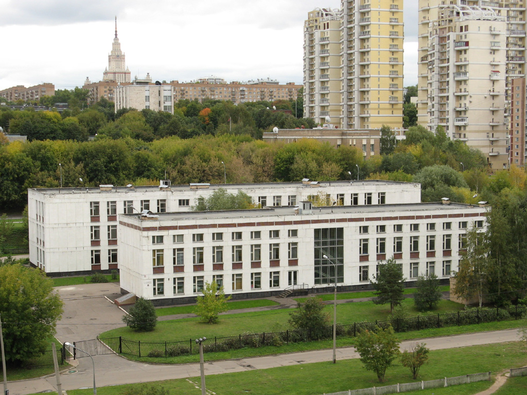 Secondary school No. 1118 on Dovzhenko Street, Moscow, Russia.